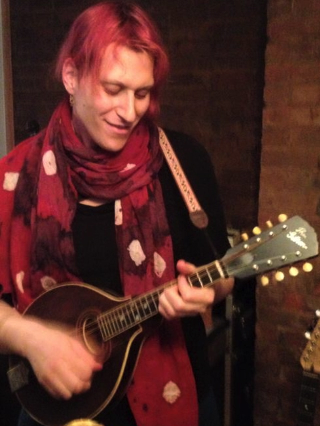 Mya Byrne, singer-songwriter, playign mandolin in from of a microphone in a studio.